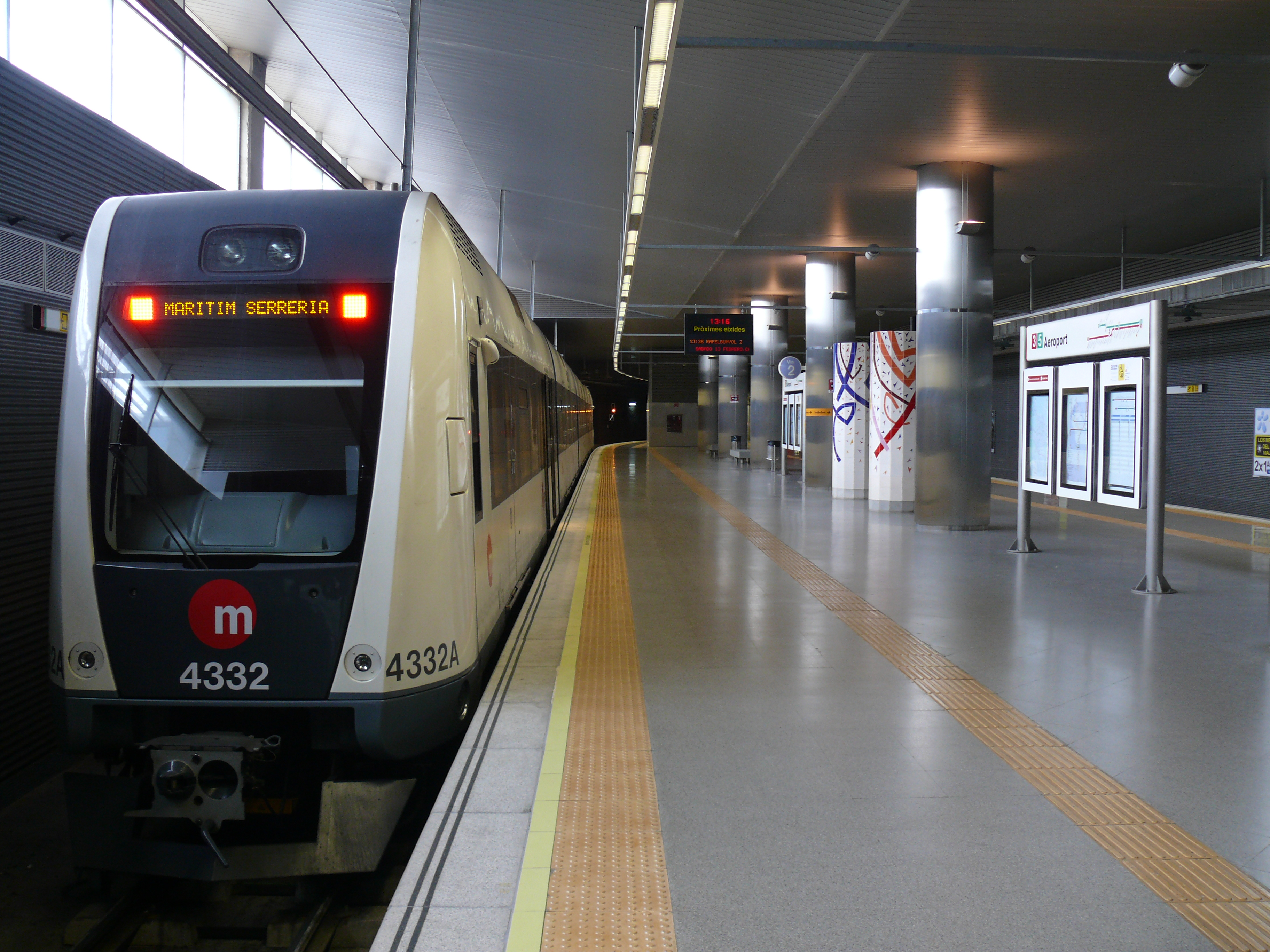 Line 5 links the port to the airport